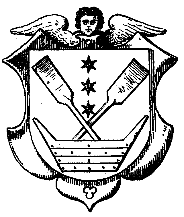 Rogowo. Coat of arms.